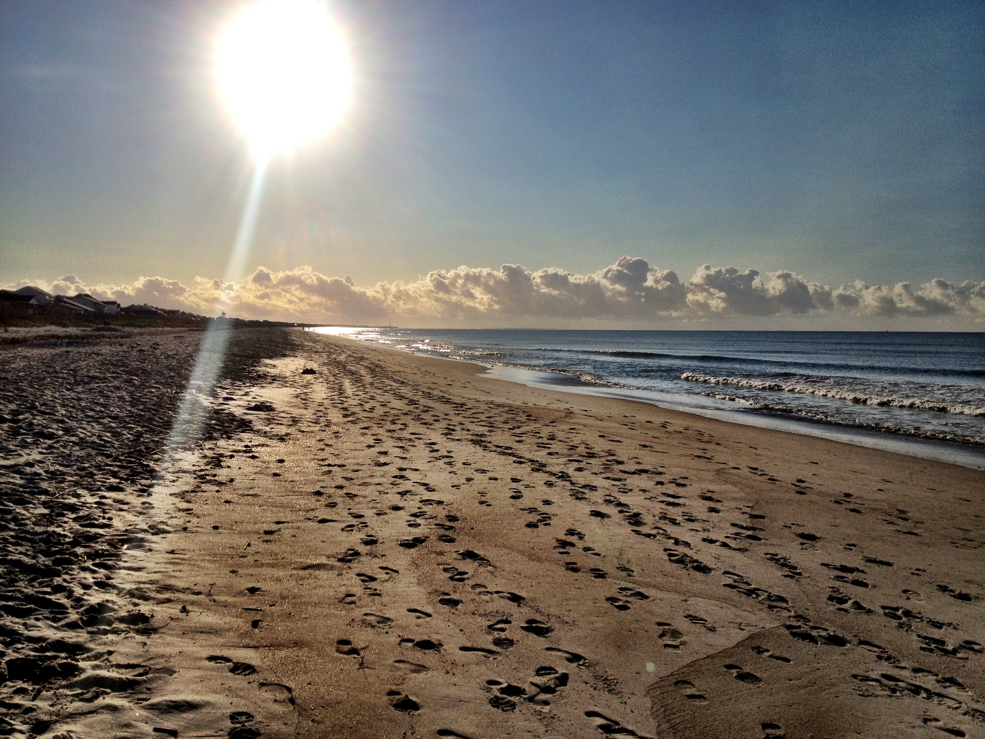 Looking east down the beach